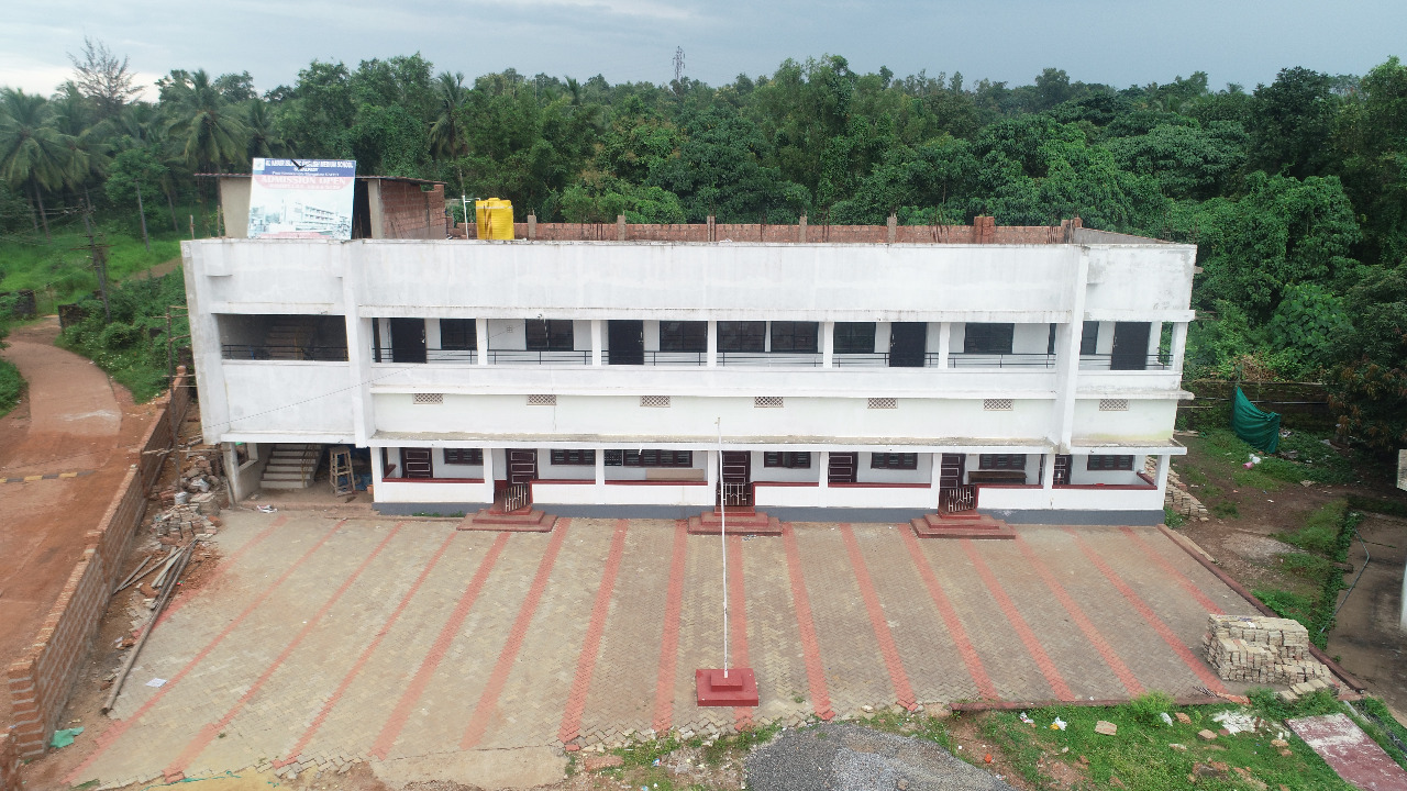 Al-Khair new School Building